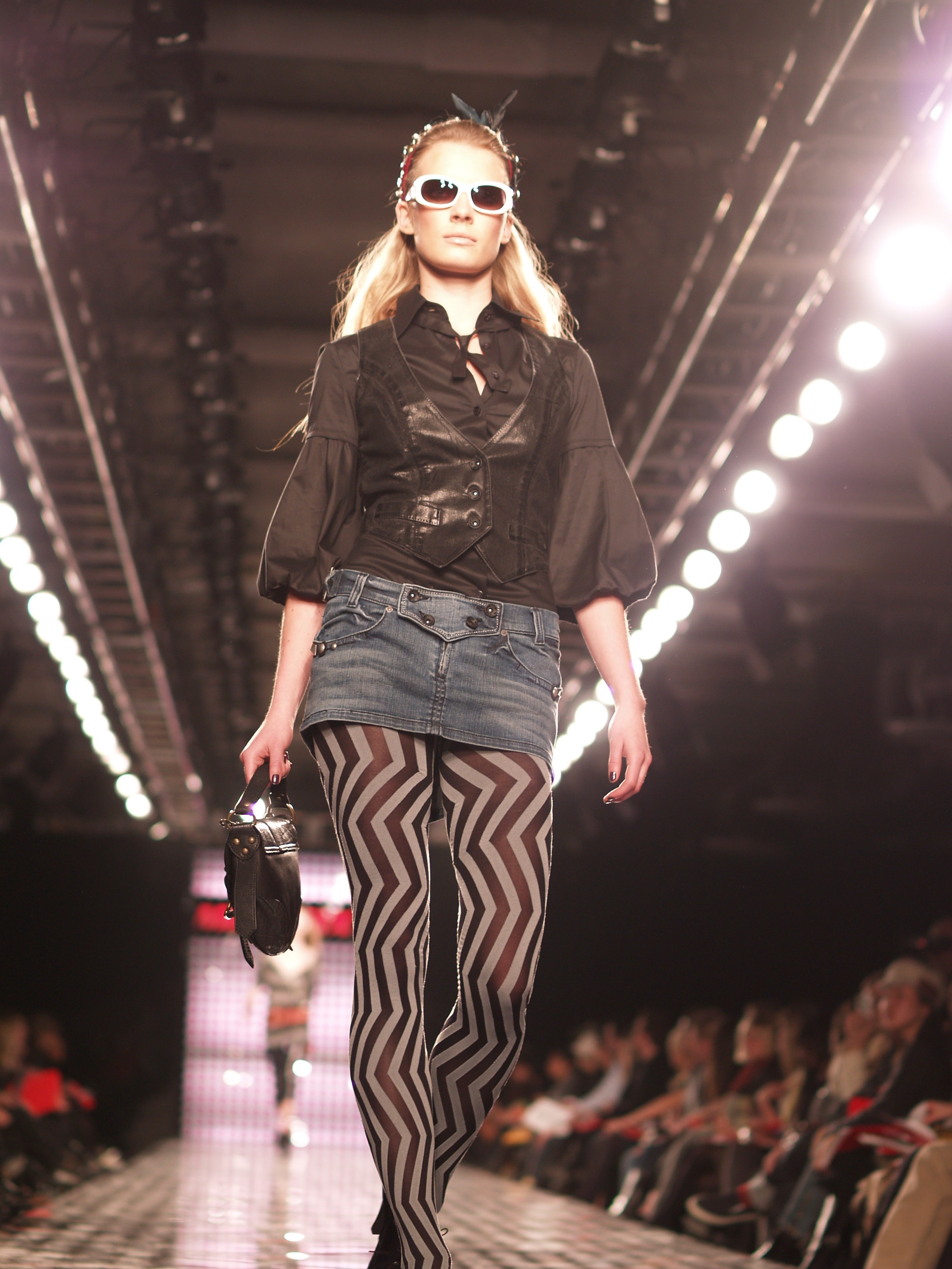 Julia Dunstall modeling for Miss Sixty, Fall 2007 New York Fashion Week.